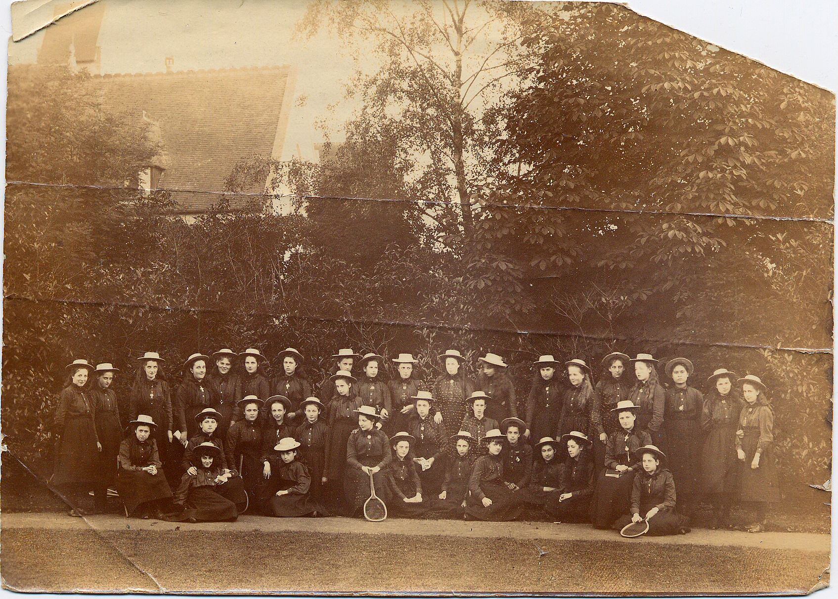 Posed group photograph of Ladies School boarding girls on lawn of St Margaret's Convent, East Grinstead, with straw hats and tennis racquets.